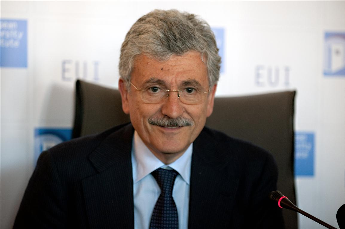 SoU2013 - The State of the Union 2013